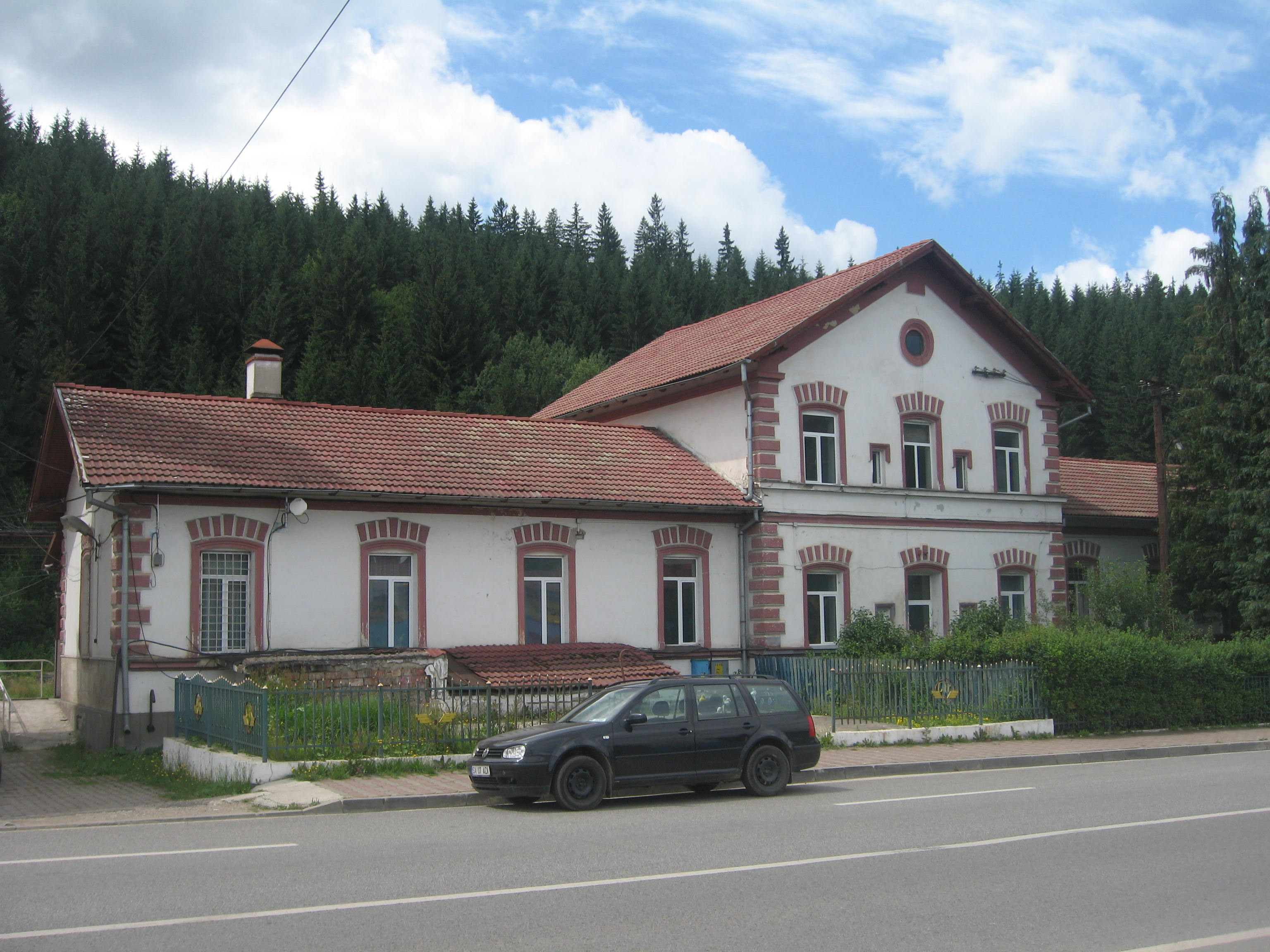 The Railway Station Vatra Dornei, Romania